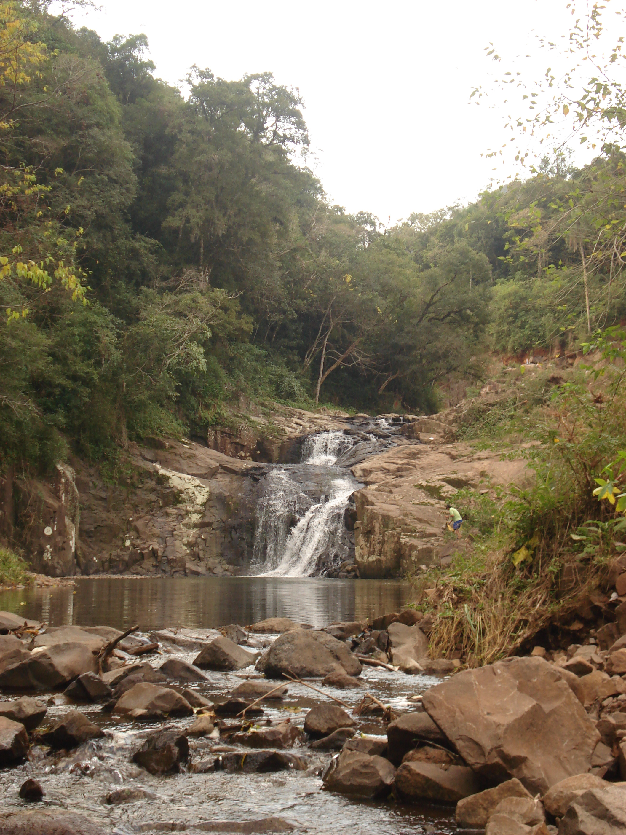 Waterfall of Solitária in Igrejinha, Rio Grande do Sul, Brazil.